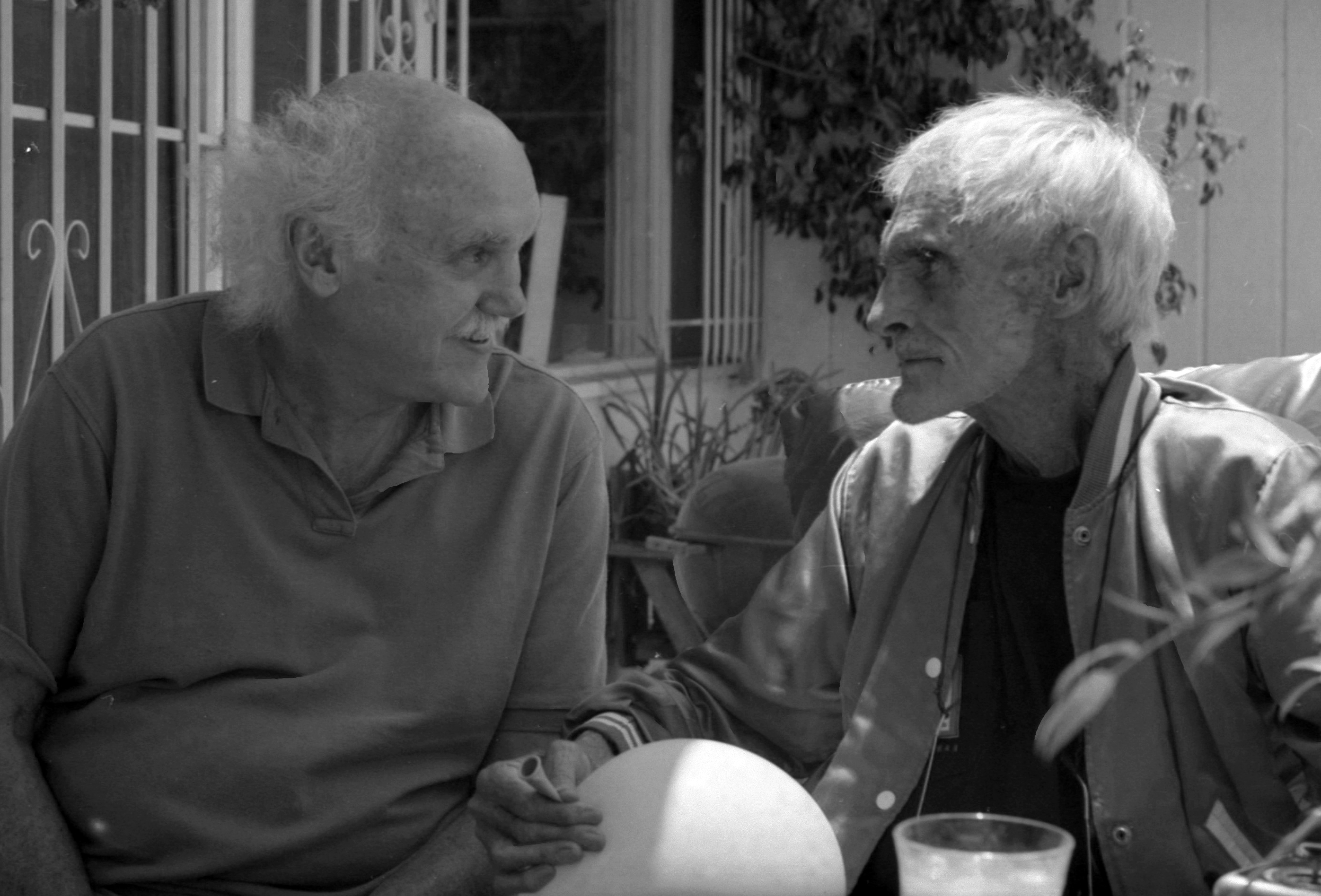 Photo taken Saturday May 25, 1996 on the patio of Timothy Leary's patio in Beverly Hills, CA